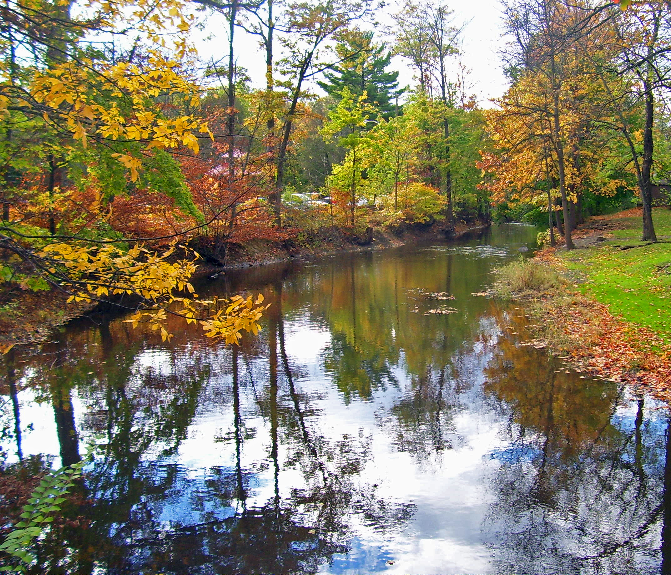 Tin Brook, a tributary of the Wallkill River, at Wooster Grove Memorial Park in Walden, NY, USA